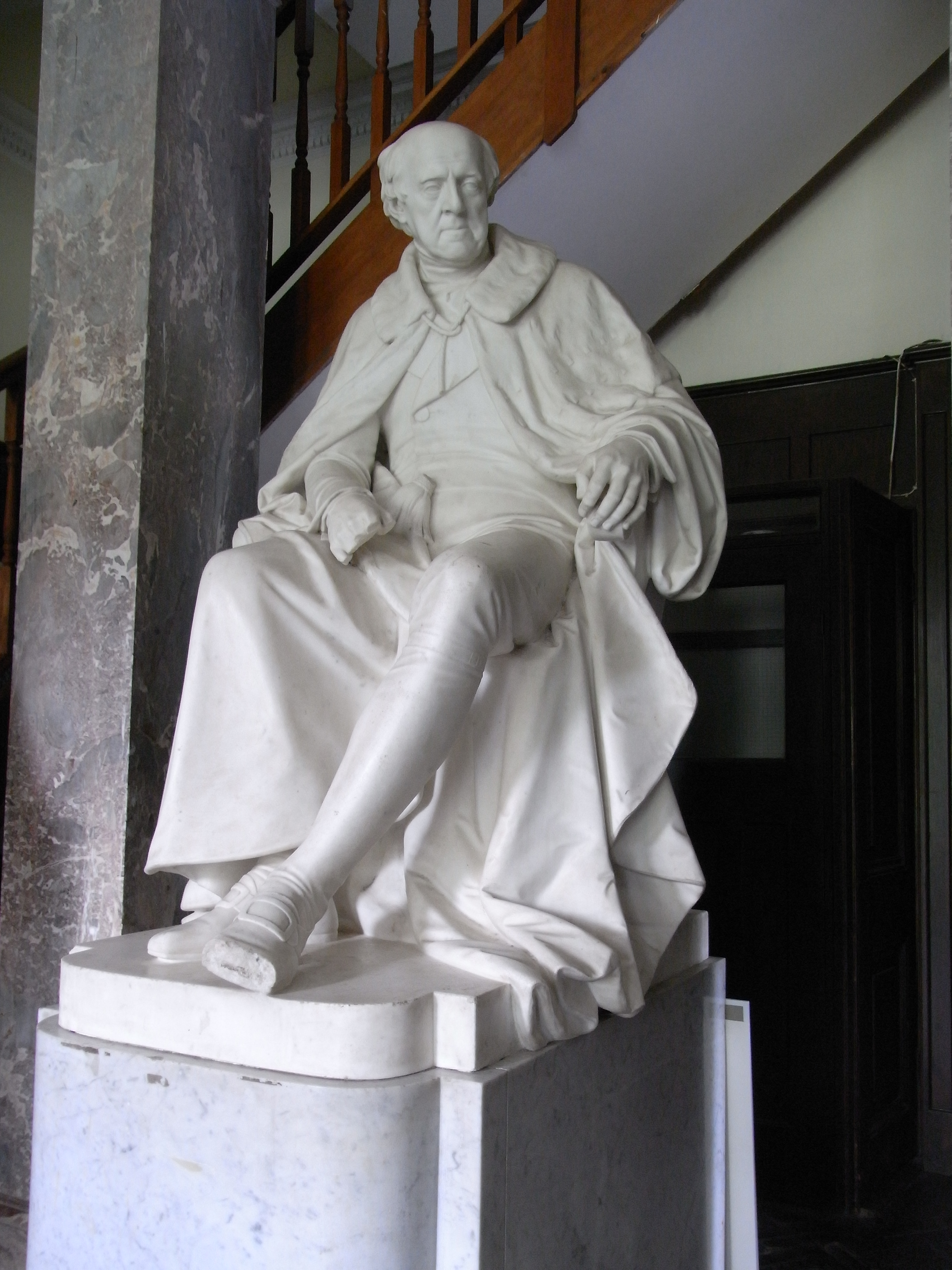 Marble statue of John Rolle, 1st Baron Rolle (d.1842), by E.B. Stephens, entrance hall of Lupton House, Brixham, Devon. Inscribed on rear: "E B Stephens sculp London 1843". On the back of Lord Rolle's chair is inscribed a large black-letter Gothic type "R", within a wreath of oak leaves sculpted in low relief. An identical version dated 1844 exists in the entrance hall of Bicton House, Lord Rolle's home